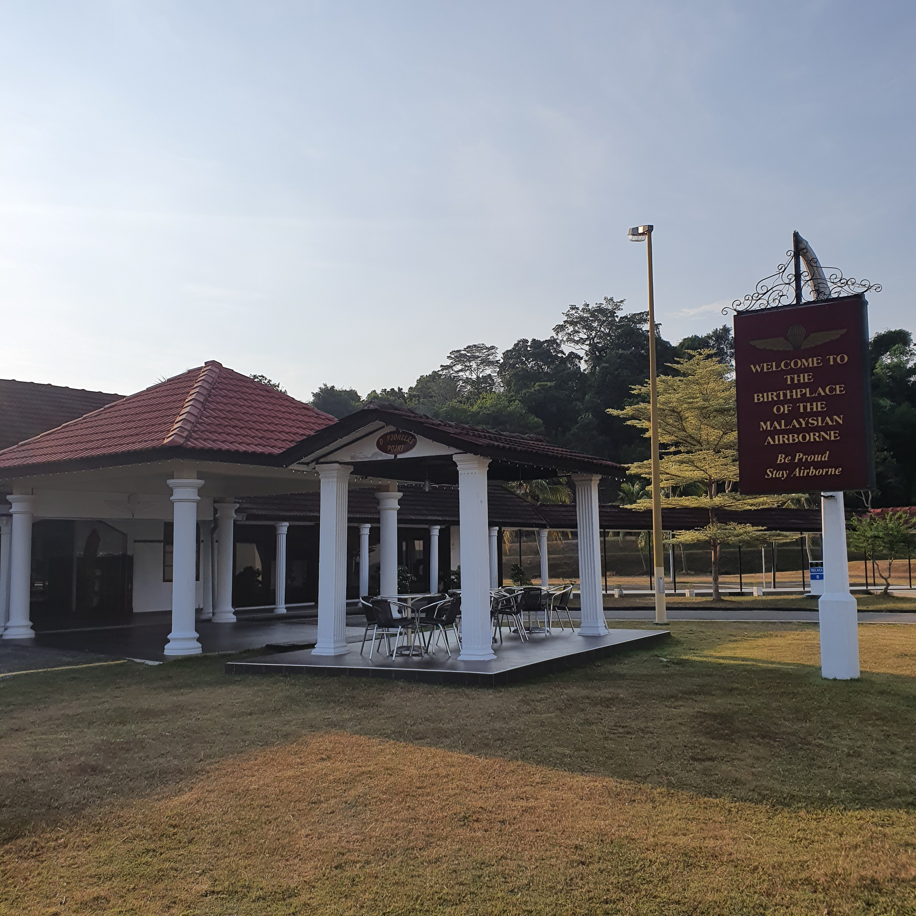 D'PIONEER WP